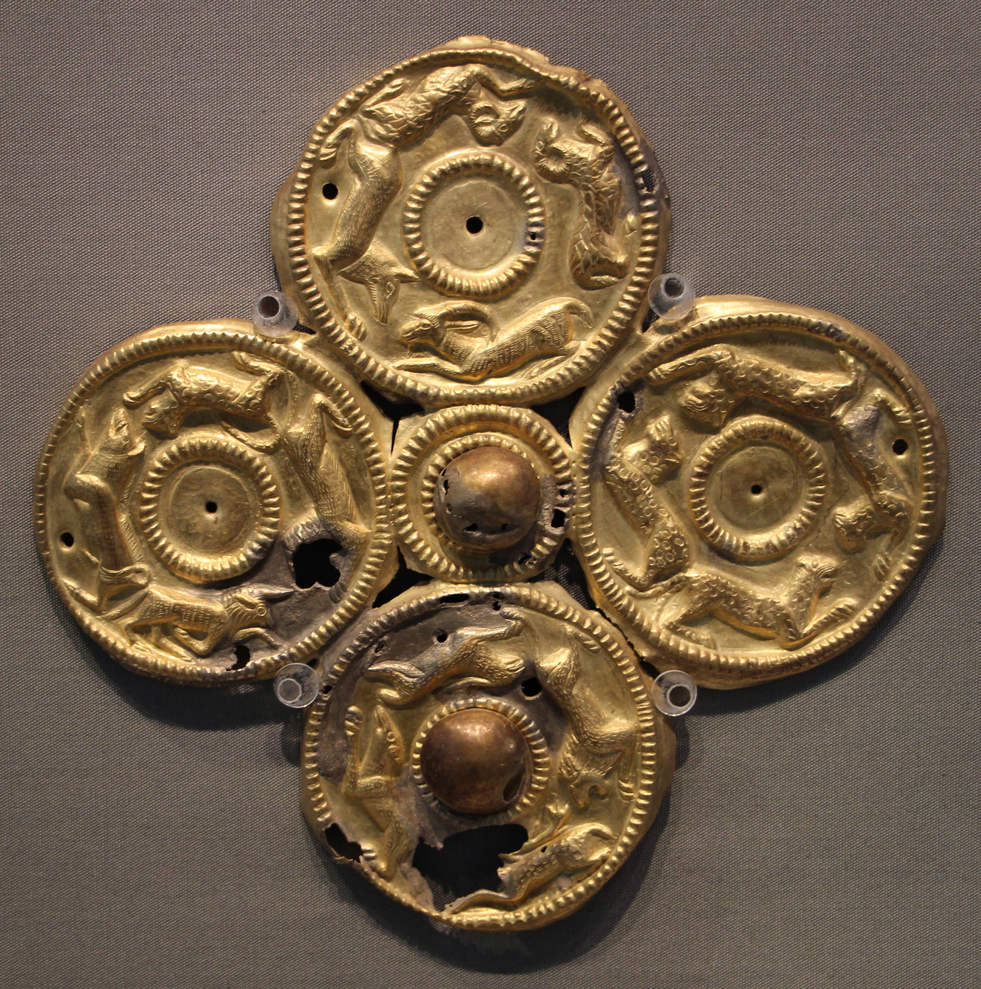 Ancient Greek jewellery in the Antikensammlung Berlin